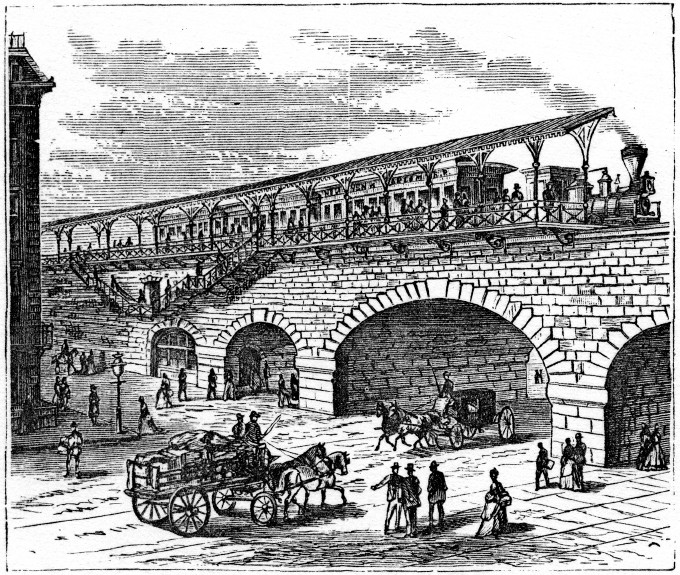 "This drawing made before construction is wrong in two respects. The additional street-level arched waiting room window was actually built on the east side, and the entrance to the station is midway through the viaduct, not near one side as shown."